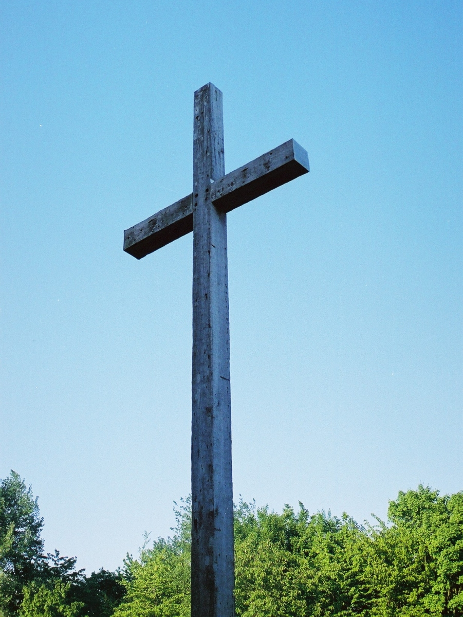 The wooden cross outside the East end of Guildford Cathedral